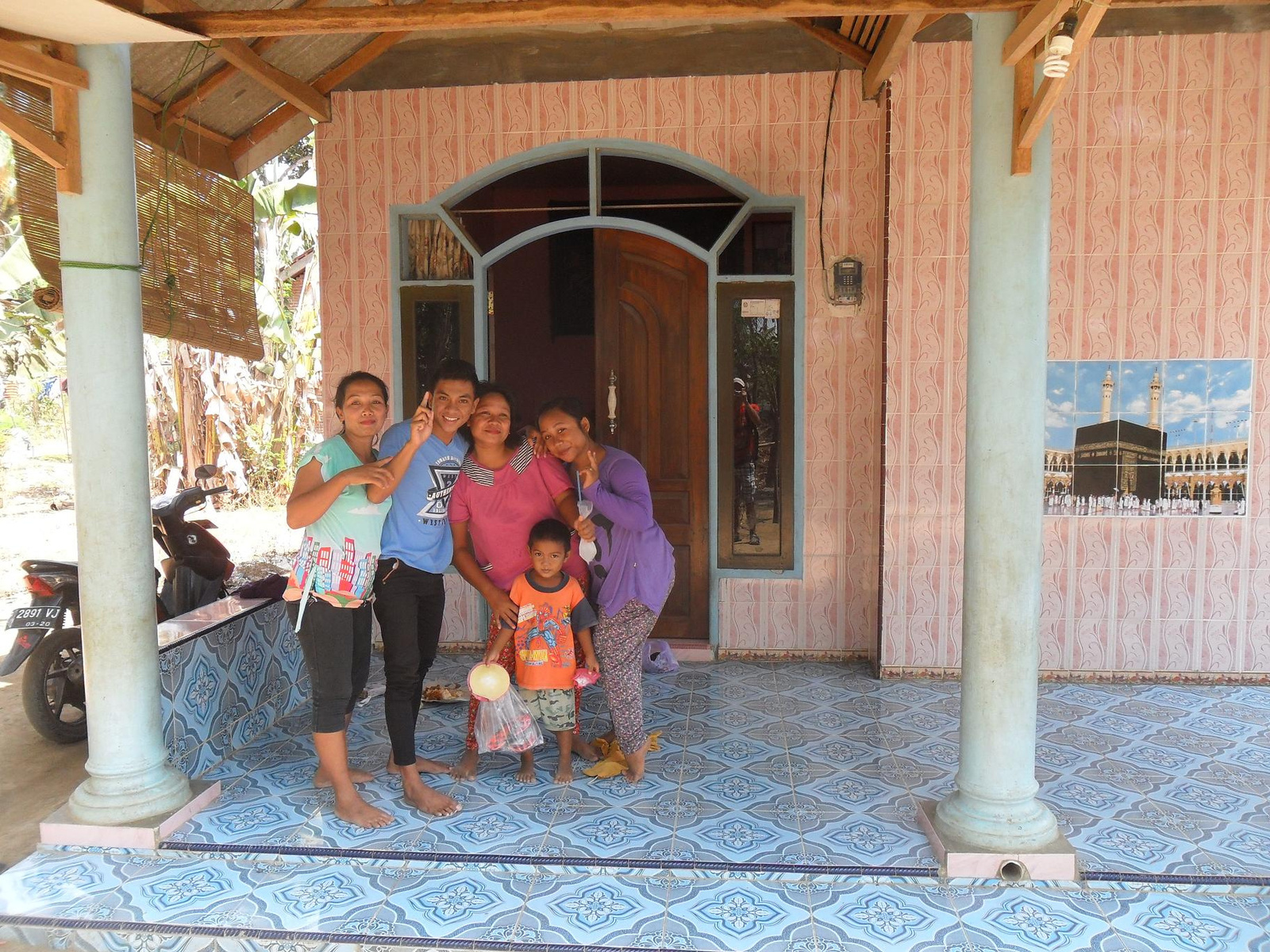 People near Banyuwangi, East Java, Indonesia